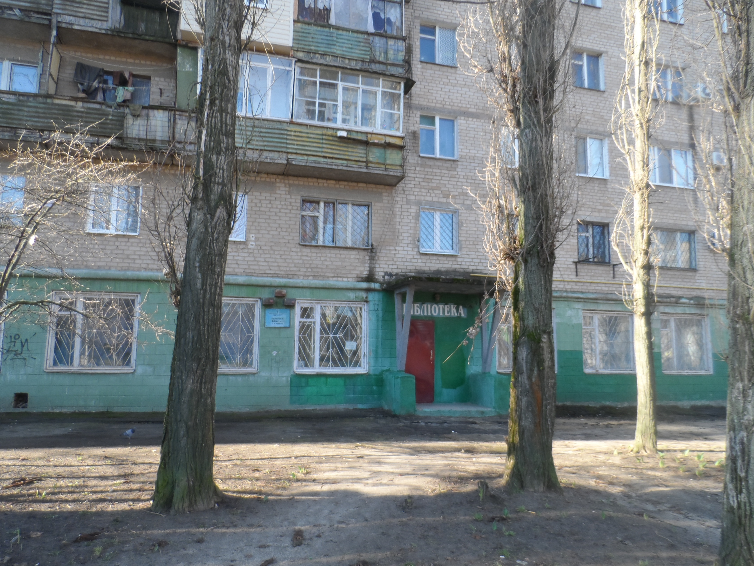 Library in Melitopol